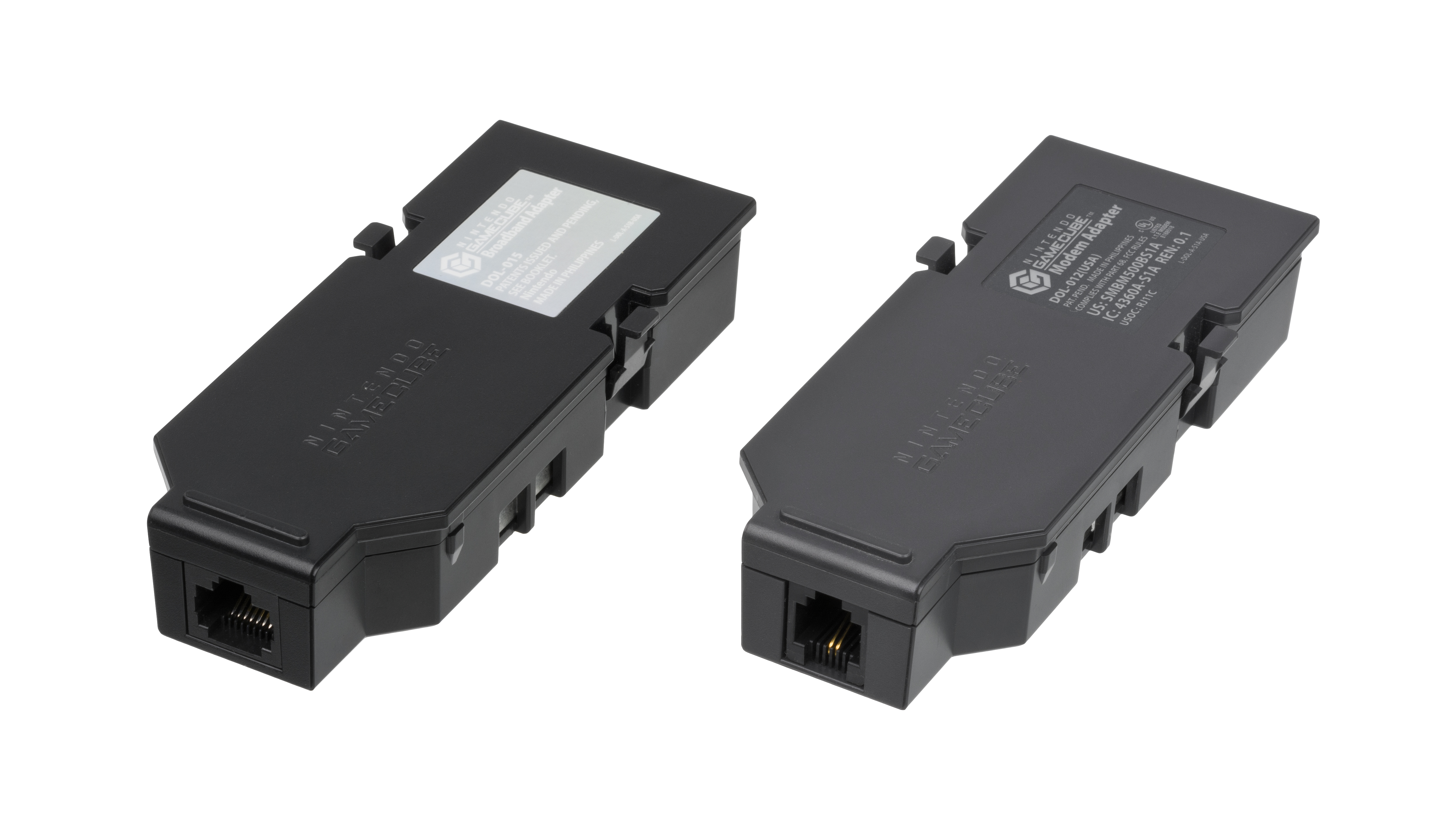 The Modem and Broadband Adapters for the Nintendo GameCube. These add-ons fit underneath the console and allowed for internet connectivity or LAN gaming in a handful of games.